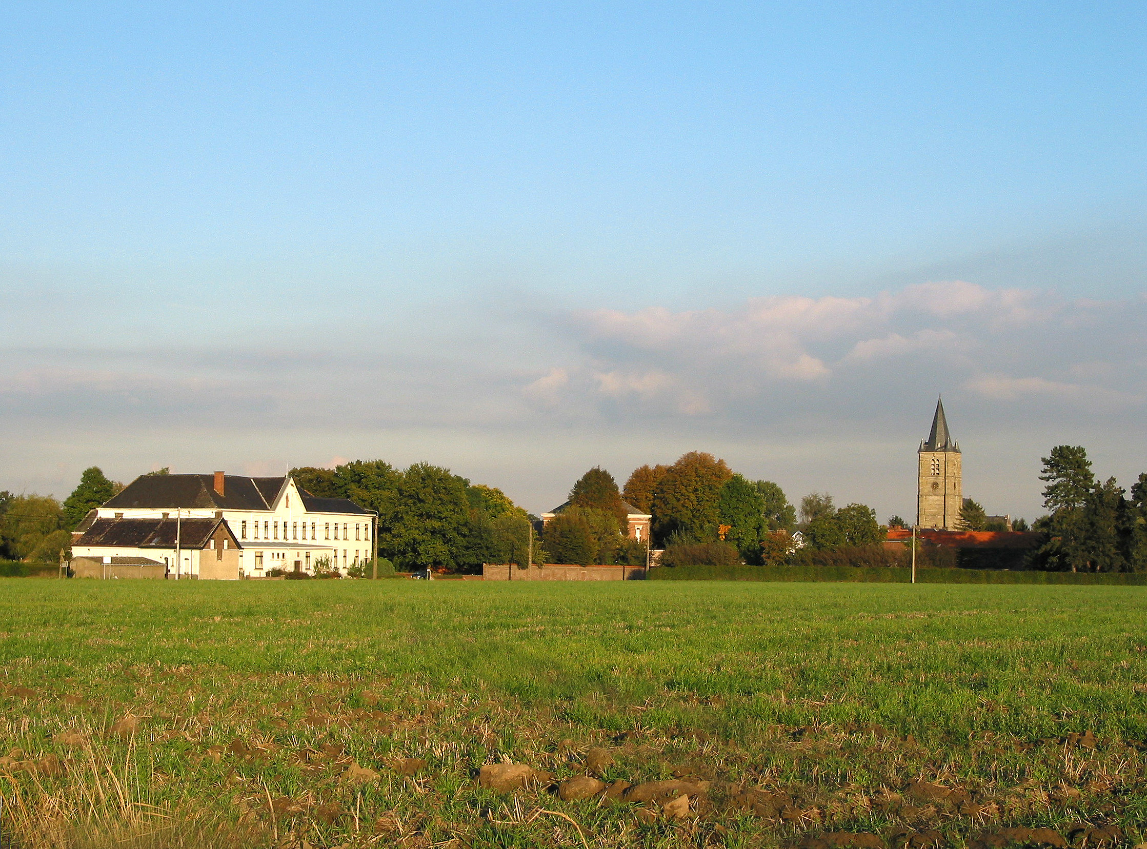 Celles (Hainaut) (Belgium), general view.